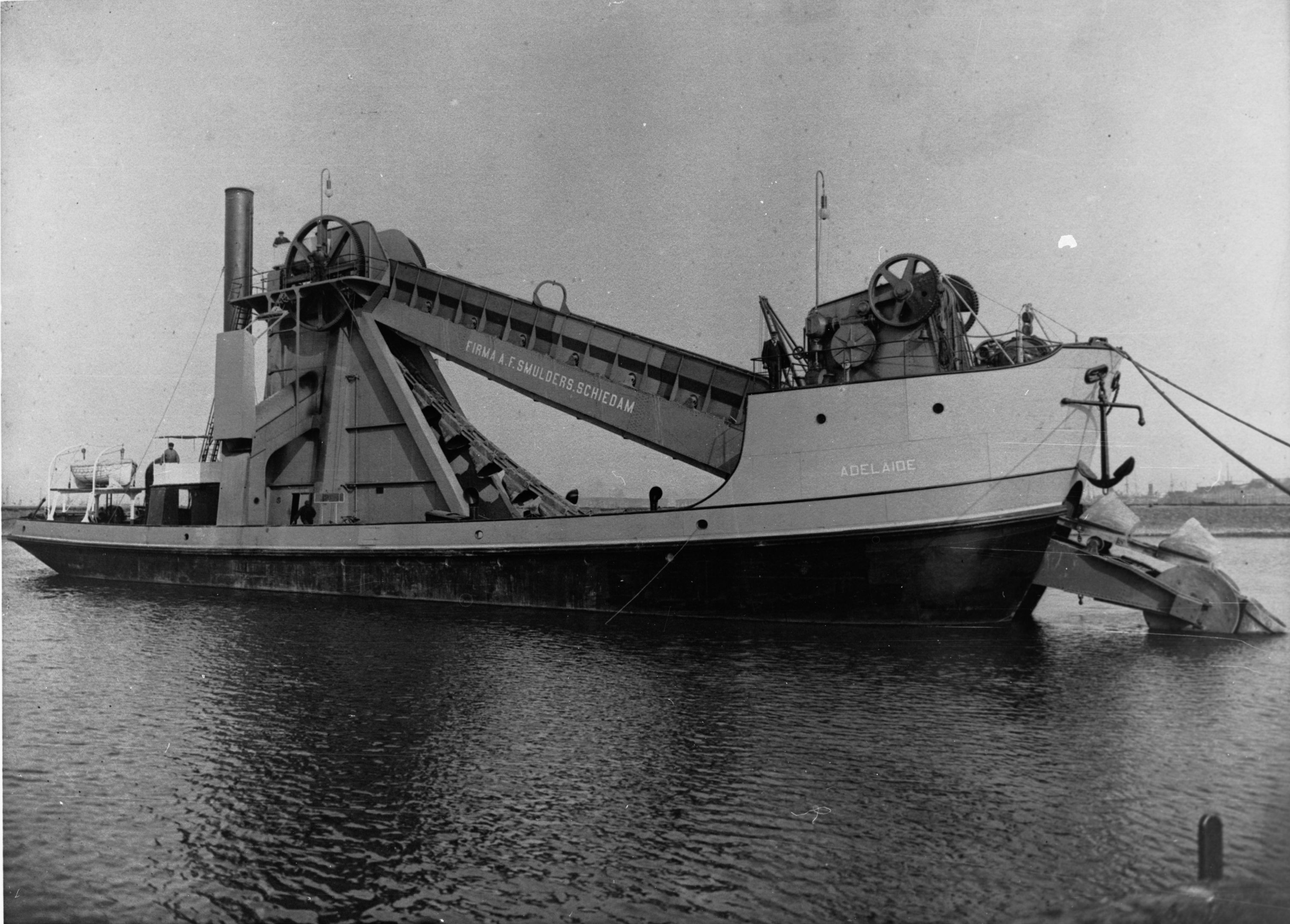 This dredge was built by A.F. Smulders of Schiedam, Holland. This company also built the steam dredge 'South Australian' (See GN09356).